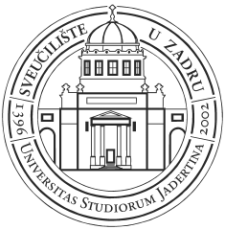 University of Zadar Logo